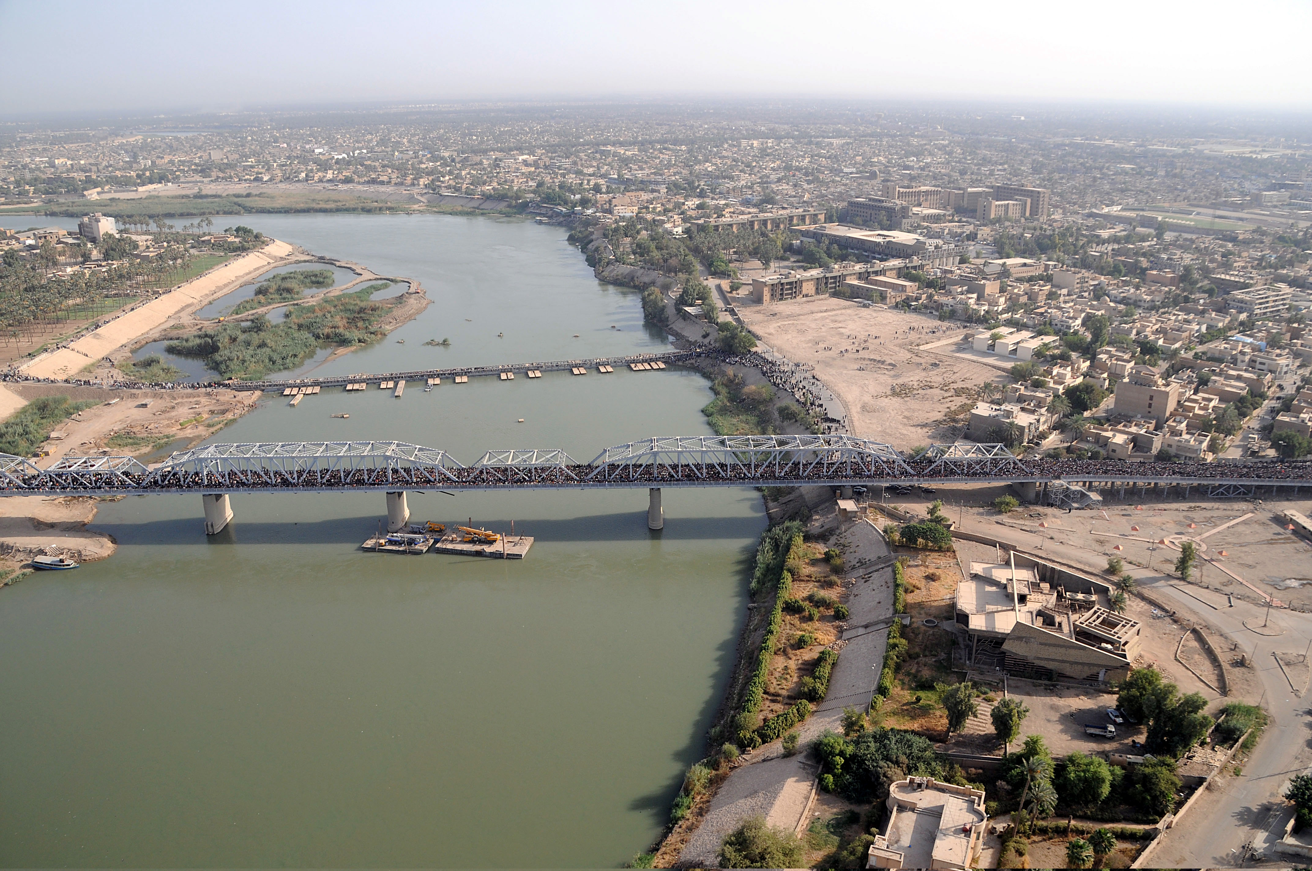 Hundreds of thousands of Shiites make their way across the newly-rebuilt Sarifiyah Bridge and a smaller neighboring bridge in their annual pilgrimage to the Kadhamiyah shrine, northern Baghdad, Iraq, July 29, 2008.